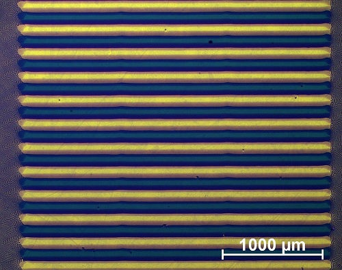 Recording of the magnetic structures of a magnetic stripe card (recorded using CMOS-MagView).